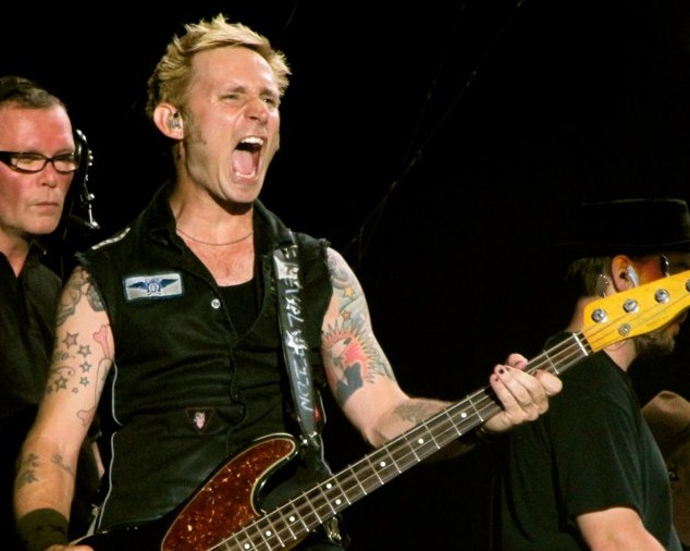 Green Day's Mike Dirnt performing in Caracas, Venezuela in October 2010